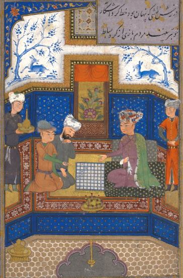 Selections from the Divan of the 15th century author Mawlana Katibi, who for a time was court poet to the ruler of Shirvan, Mirza Shaykh Ibrahim. Playing chess2.